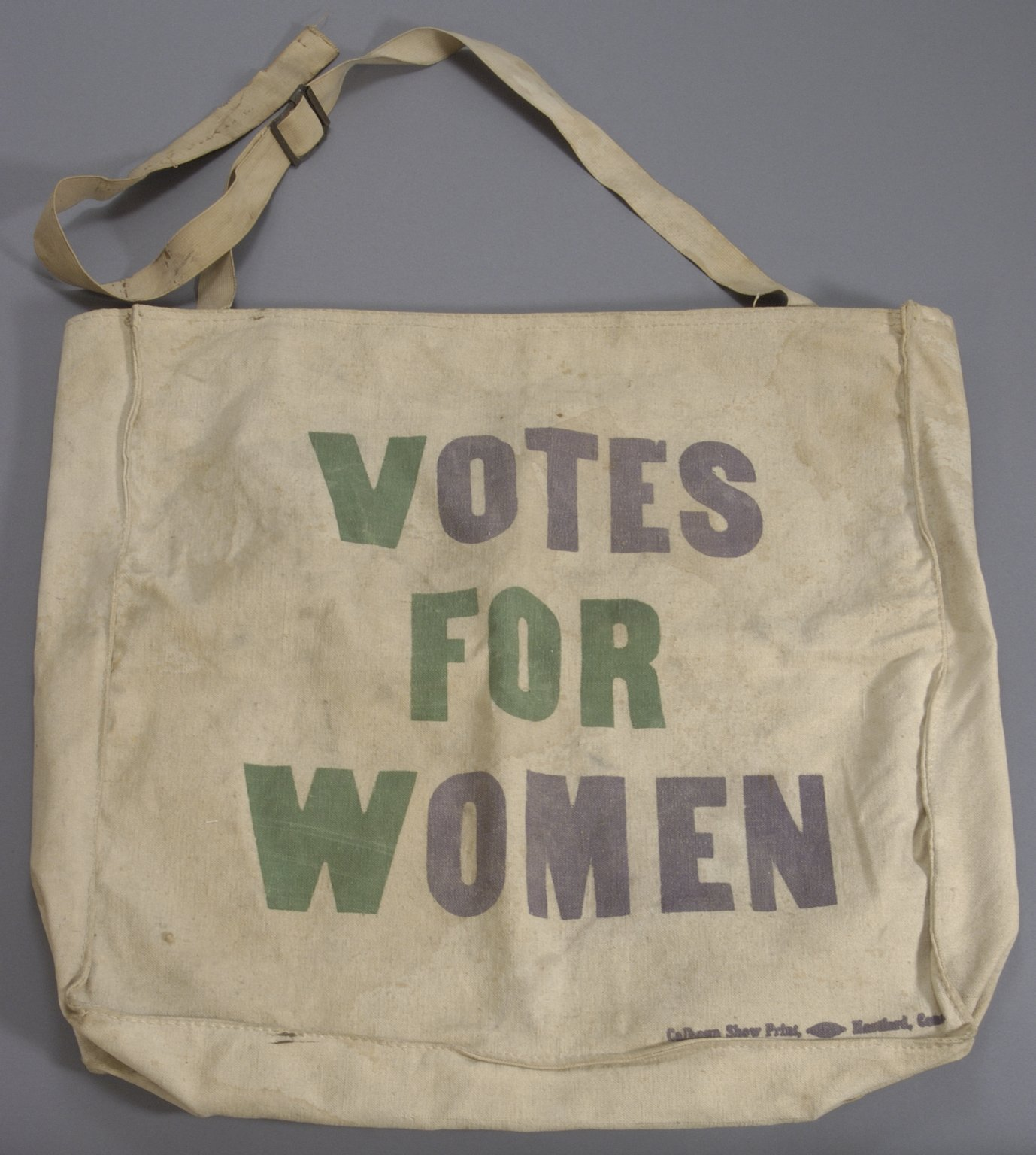 Collection: Cornell University Collection of Political Americana, Cornell University Library Repository: Susan H. Douglas Political Americana Collection, #2214 Rare & Manuscript Collections, Cornell University Library, Cornell University Title: "Votes For Women" Canvas Bag, ca. 1920 Election Year: 1920 Date Made: ca. 1920 Measurement: Canvas Bag: 23 x 14 in.; 58.42 x 35.56 cm Classification: Decorative Arts Persistent URI: There are no known U.S. copyright restrictions on this image. The digital file is owned by the Cornell University Library which is making it freely available with the request that, when possible, the Library be credited as its source.